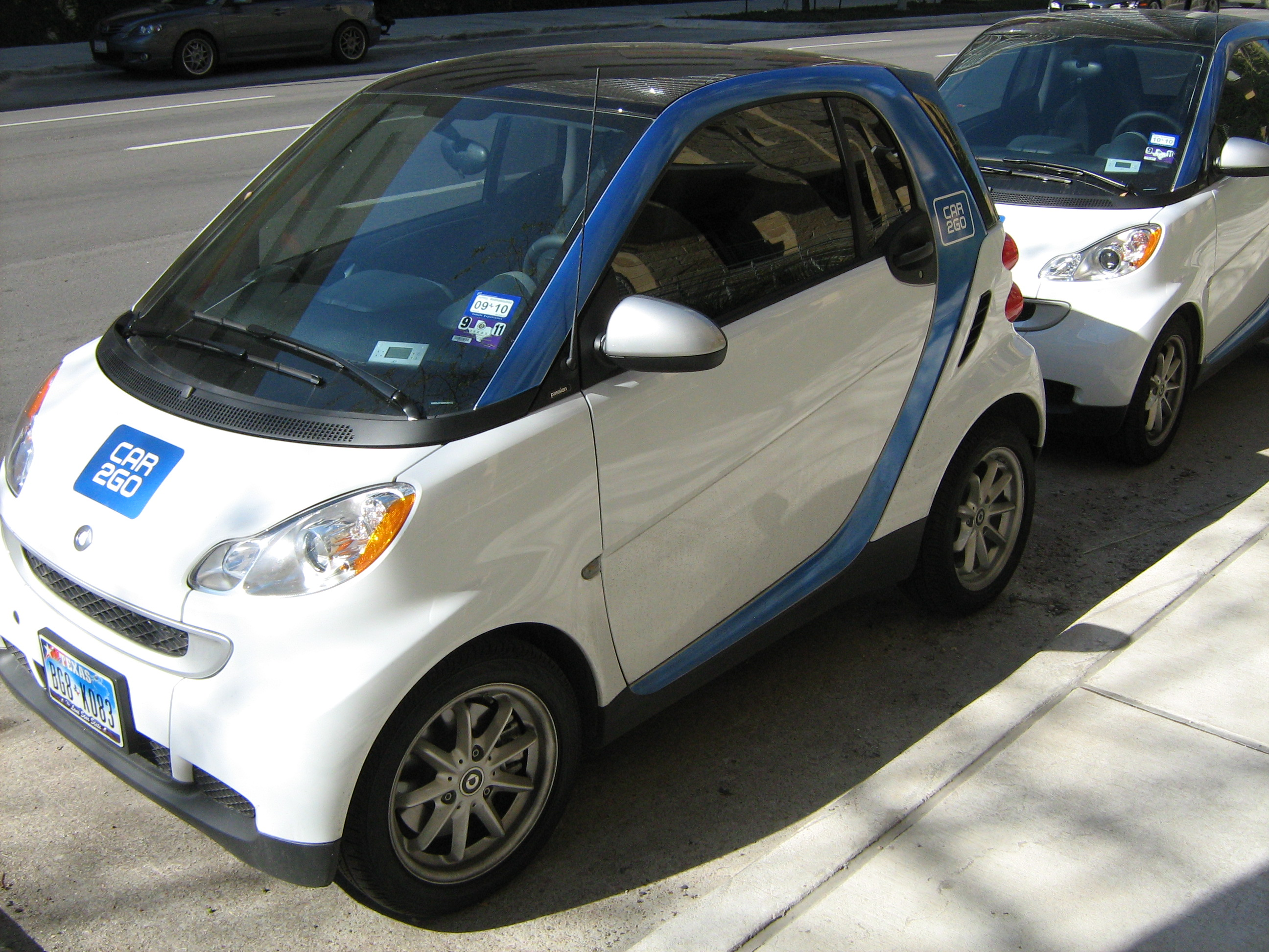 Two Smart Fortwo cars in the Car2Go fleet in Austin, Texas.